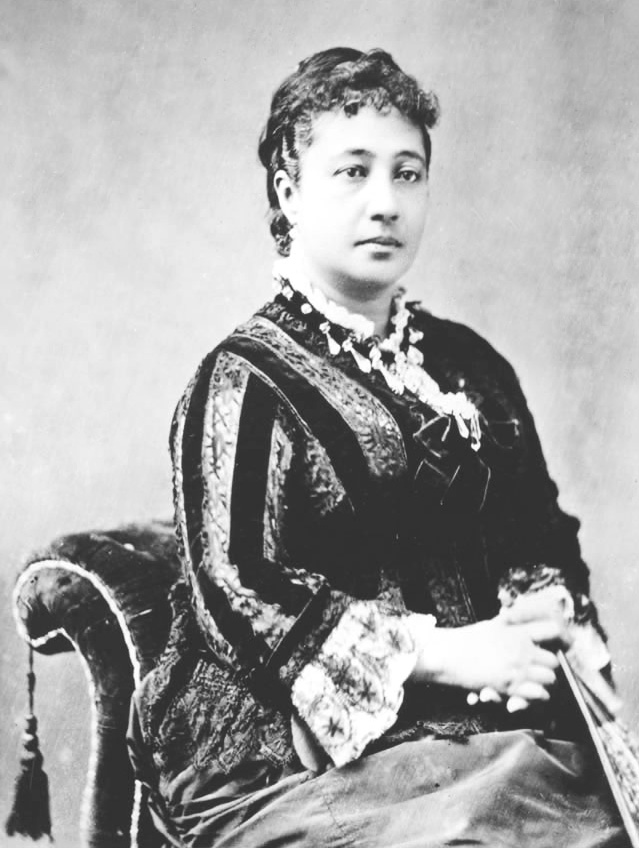 Bishop Estate (Kamehameha Schools) historical image of Bernice Pauahi Bishop (1831–1884), philanthropist and member of the Hawaiian royal family.